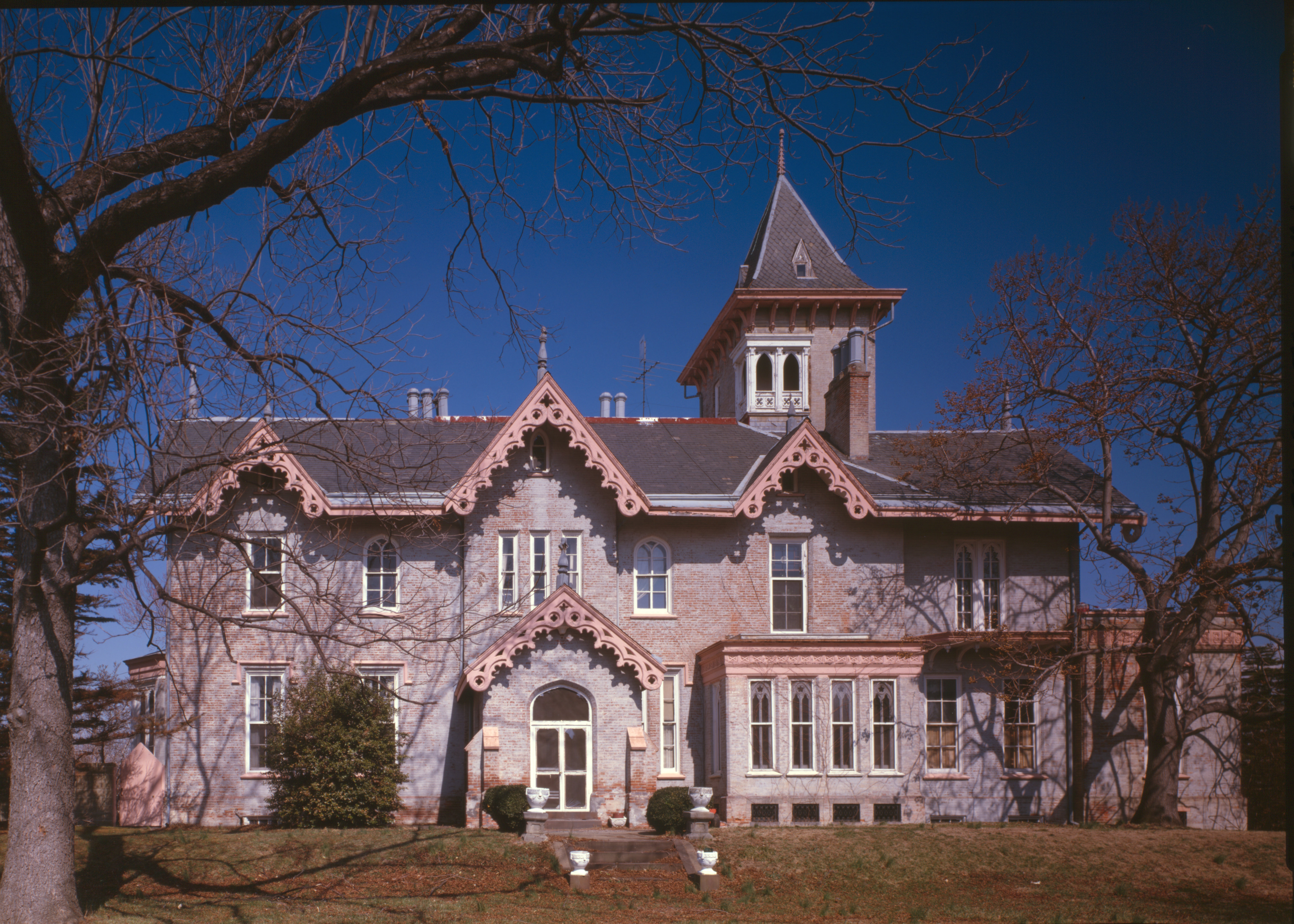 VIEW SOUTHWEST SHOWING EAST (FRONT) AND NORTH ELEVATIONS - Buena Vista, U.S. Route 13, South of U.S. Route 40, Tybouts Corner, New Castle County, DE